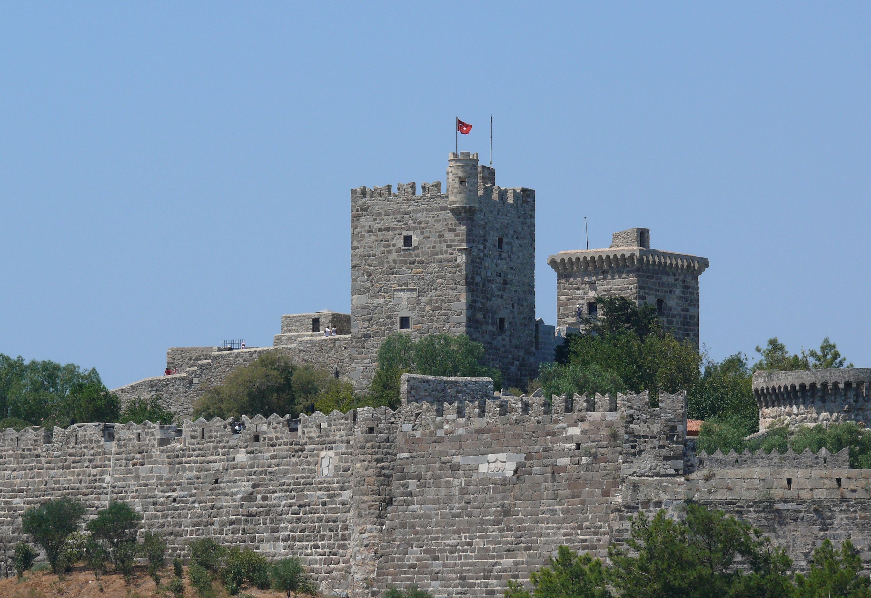 Southeast view of Bodrum Castle. Bodrum Castle (Bodrum Kalesi), located in southwest Turkey in the city of Bodrum, was built by the Knights Hospitaller starting in 1402 as the Castle of St. Peter or Petronium.